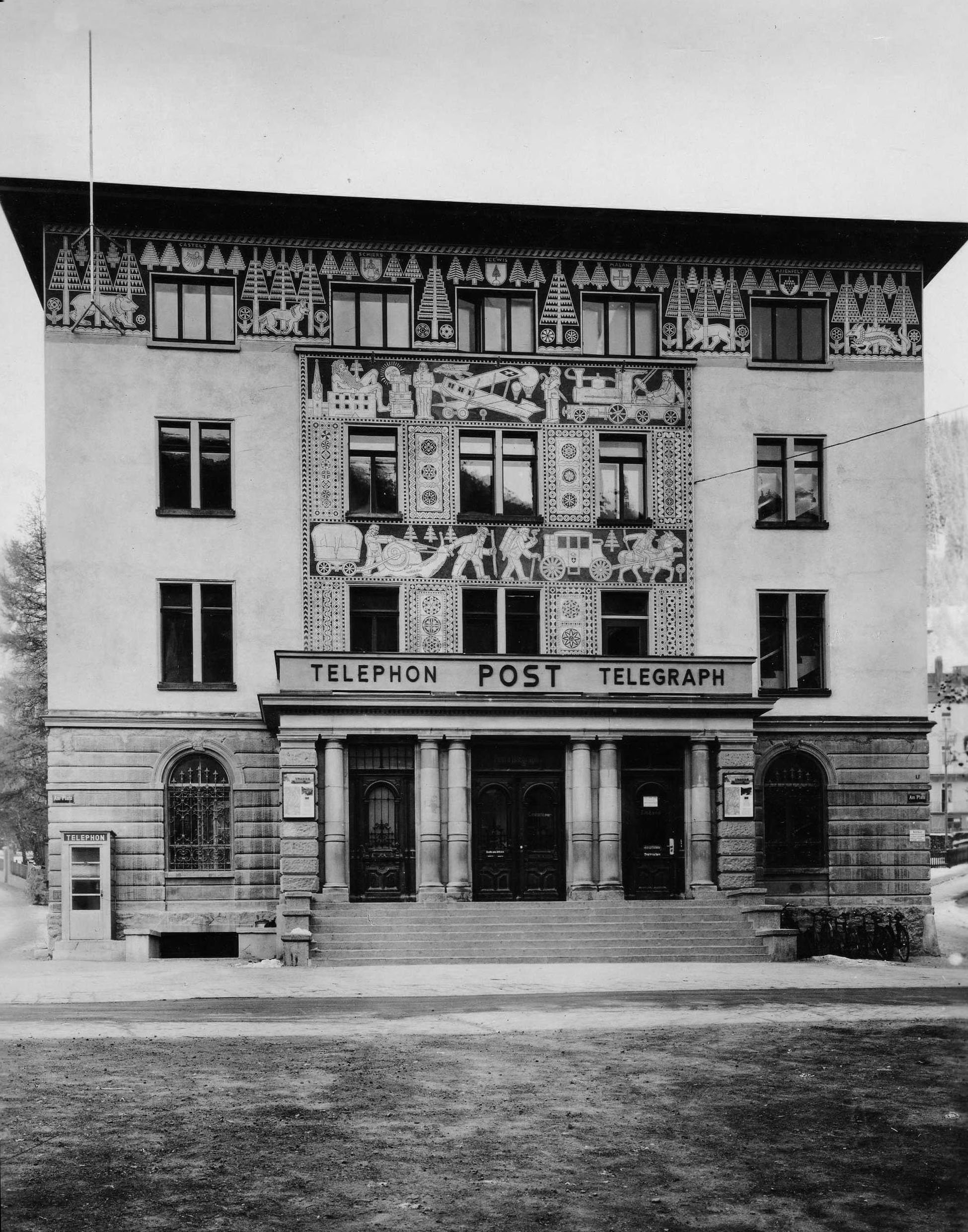 Paul Held, Sgraffito Post Davos